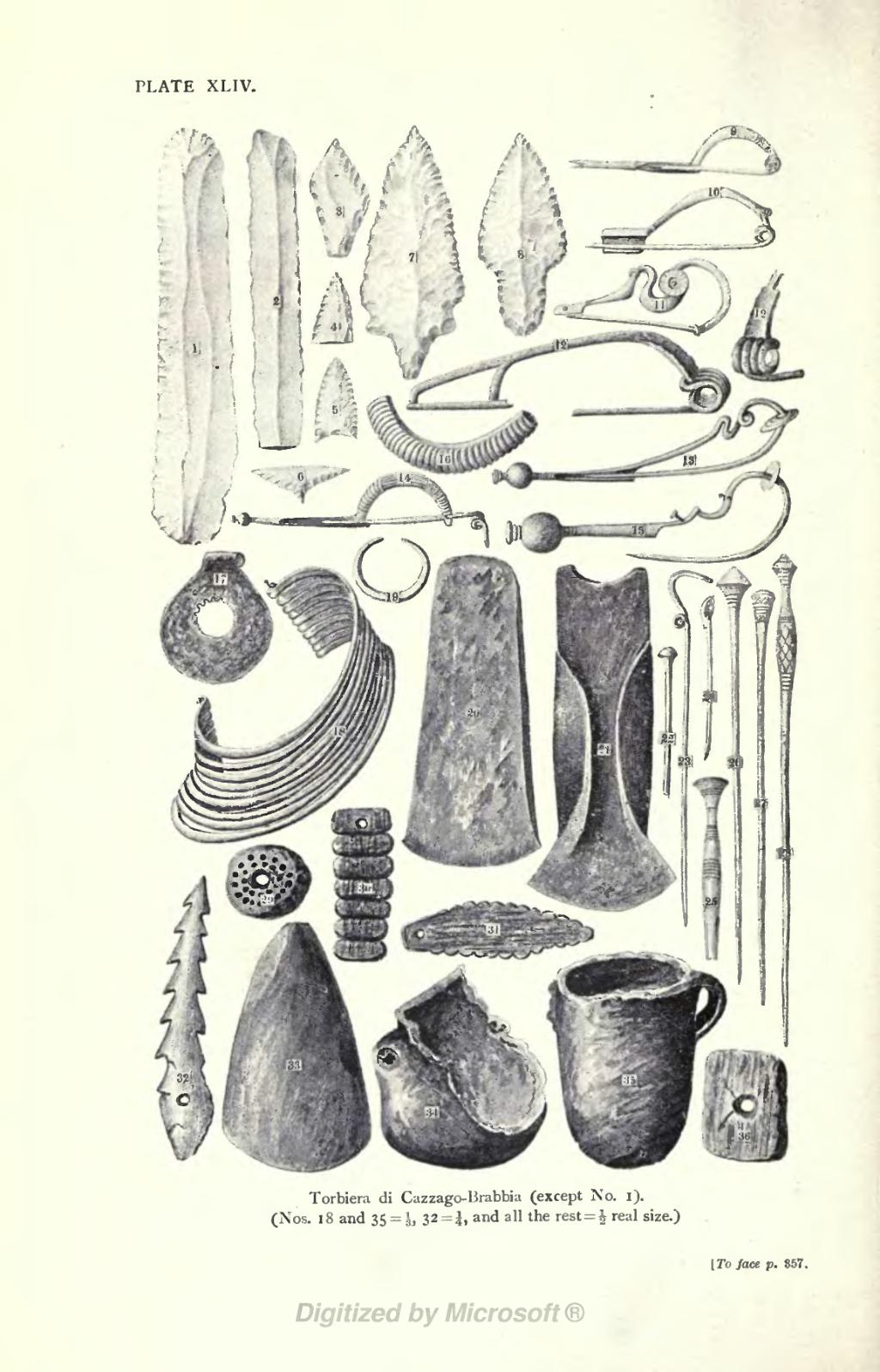 Torbiera di Cazzago-Brabbia (except No. I). (Nos. 18 and 35 = ⅓, 32 = ¼, and all the rest = ½ real size.) [To face p. 357.